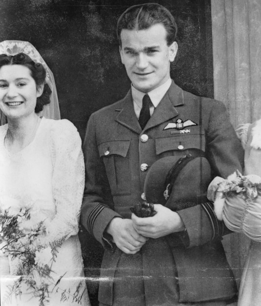 Informal portrait of Wing Commander (Wg Cdr) Brendan Eamonn Fergus "Paddy" Finucane RAF, DSO, DFC & two Bars of No. 452 Squadron RAAF, attending a wedding in England. Wg Cdr Finucane was later attached to 602 Squadron RAF and was killed on operations over Etaples, France, on 15 July 1942, aged 21 years.